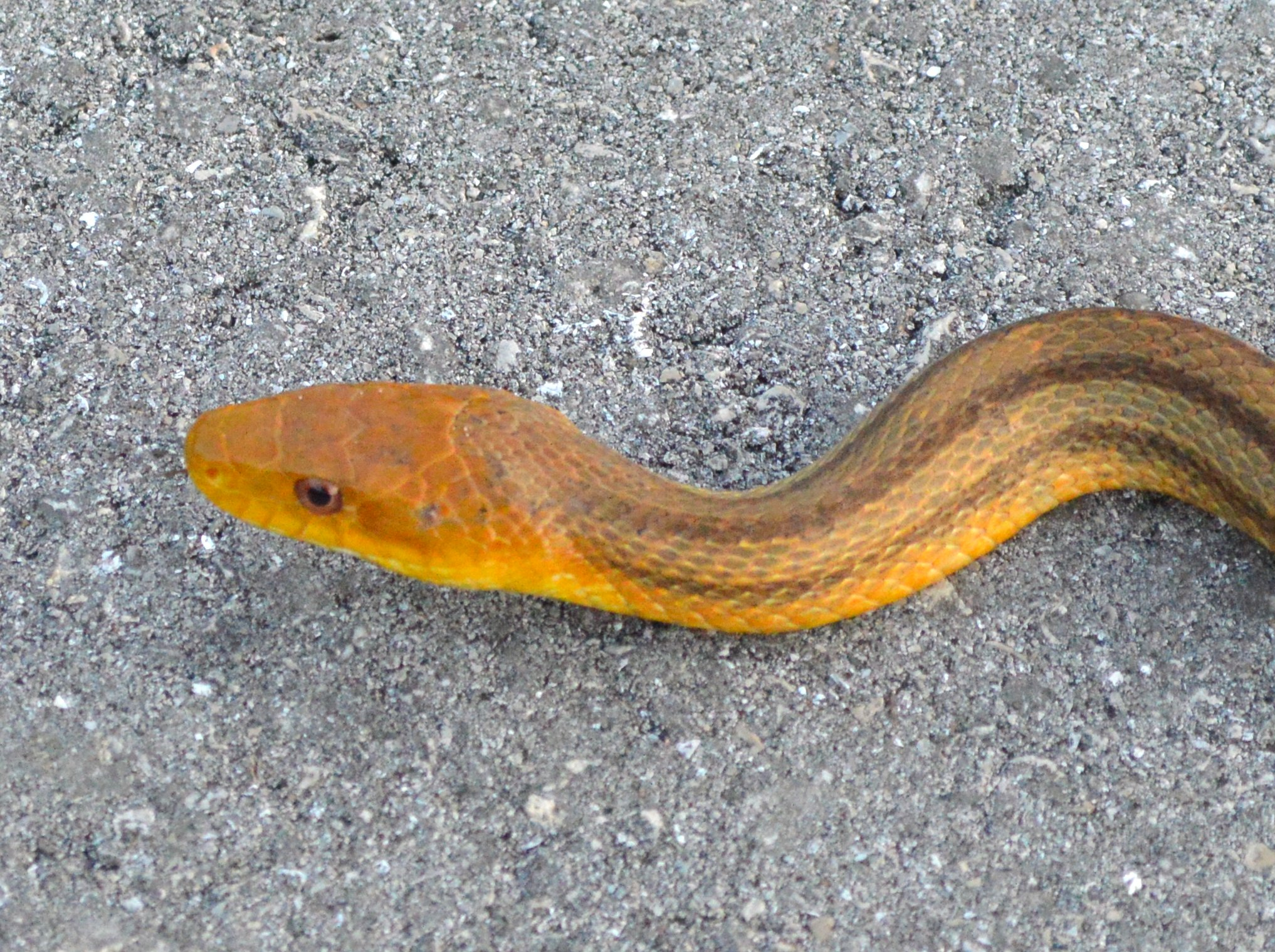 Yellow Rat Snake - Pantherophis alleghaniensis ssp. quadrivittata. In the wild, crossing a road. Locality: JN "Ding" Darling National Wildlife Refuge, Sanibel Island, Florida. Also in iNaturalist: Same invidual also photographed in: Pantherophis alleghaniensis ssp. quadrivittata 01.JPG Pantherophis alleghaniensis ssp. quadrivittata 02.JPG